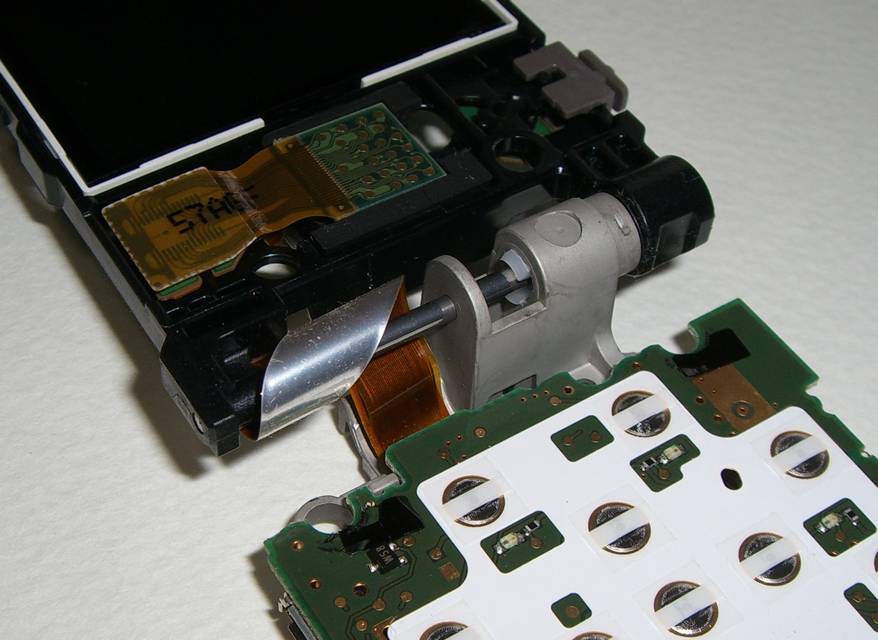 The inside of a hinge of a folding mobile phone.